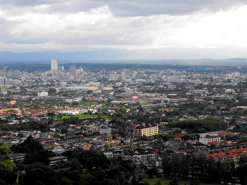 The skyline of Hat Yai City